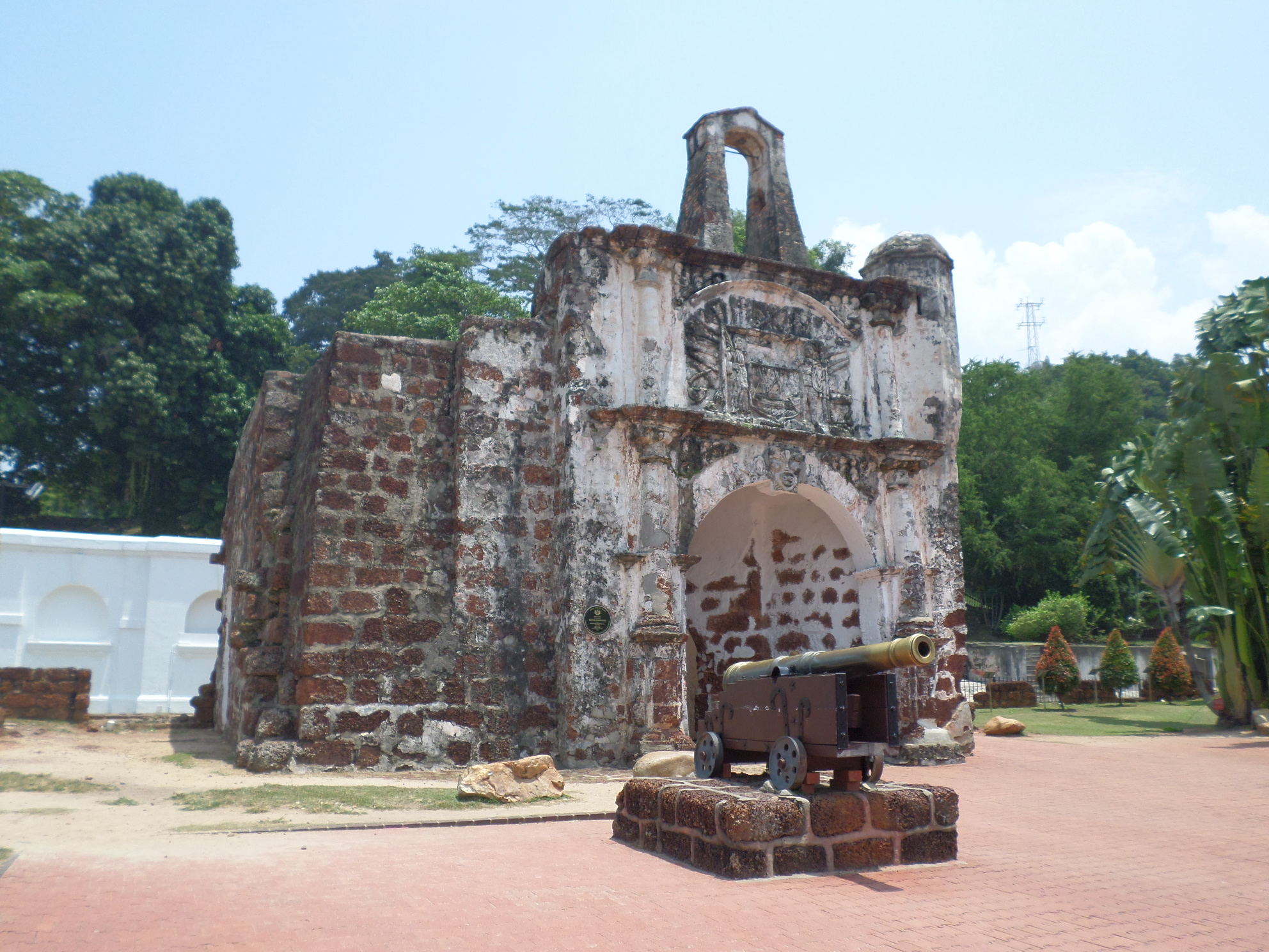 A Famosa, Melaka City, Melaka, MalaysiaBahasa Melayu: A Famosa, Bandaraya Melaka, Melaka, Malaysia